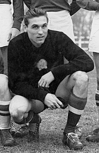 The Golden Team in 1953front row: Mihály Lantos, Ferenc Puskás, Gyula Grosicsback row: Gyula Lóránt, Jenő Buzánszky, Nándor Hidegkuti, Sándor Kocsis, József Zakariás, Zoltán Czibor, József Bozsik, László Budai